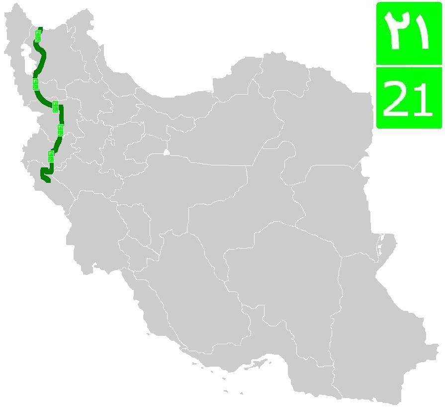 Map of Iran, highlighting Road 21 in green.